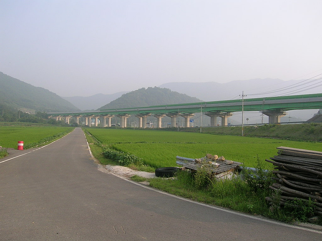 Bridge of the Jungbu Naeryuk Expressway above Sinheon-ri, Maseong-myeon, Mungyeong City, South Korea. Taken by User:Visviva.